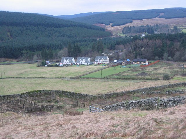 Sheep pens, Craik. Sheep pens and dip, now largely redundant as the land is nearly all forested now. View down to Craik village. There are plans to develop the village as a holiday centre and caravan park, for sitka lovers who like to get away from it all. There is evidence of local opposition.